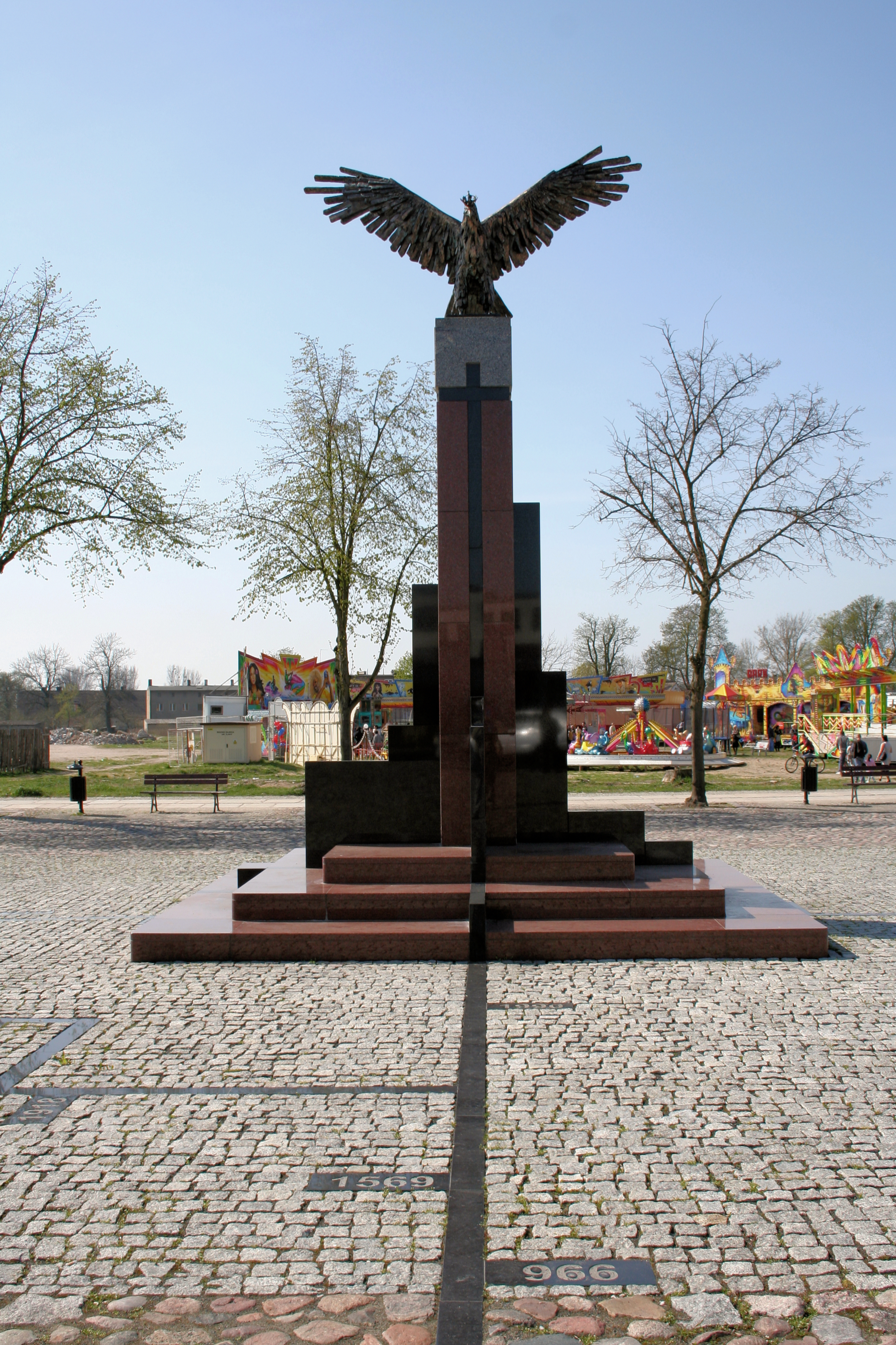 White Eagle monument in Debno